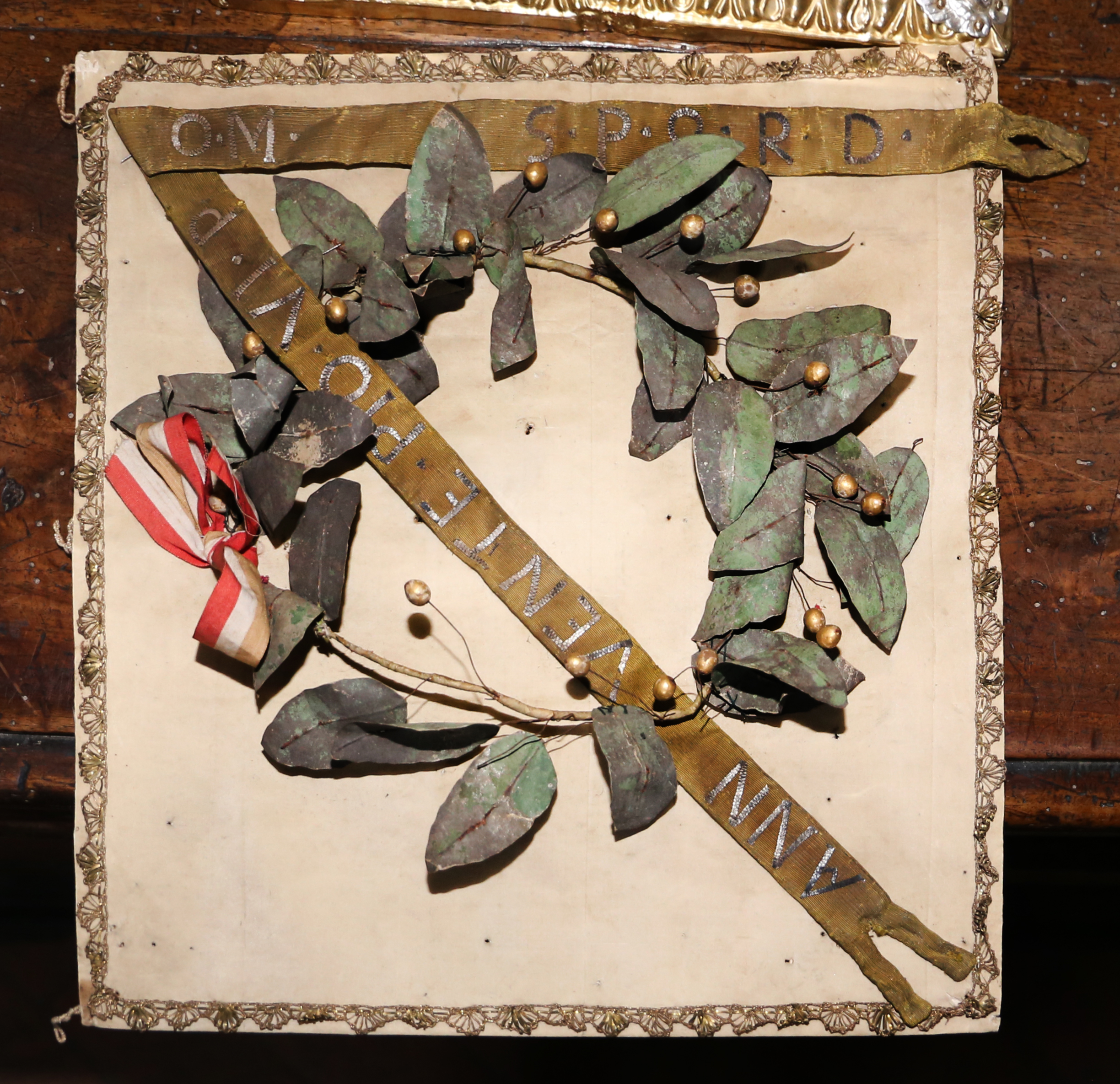 Madonna dell'Umiltà (Pistoia) - Interior